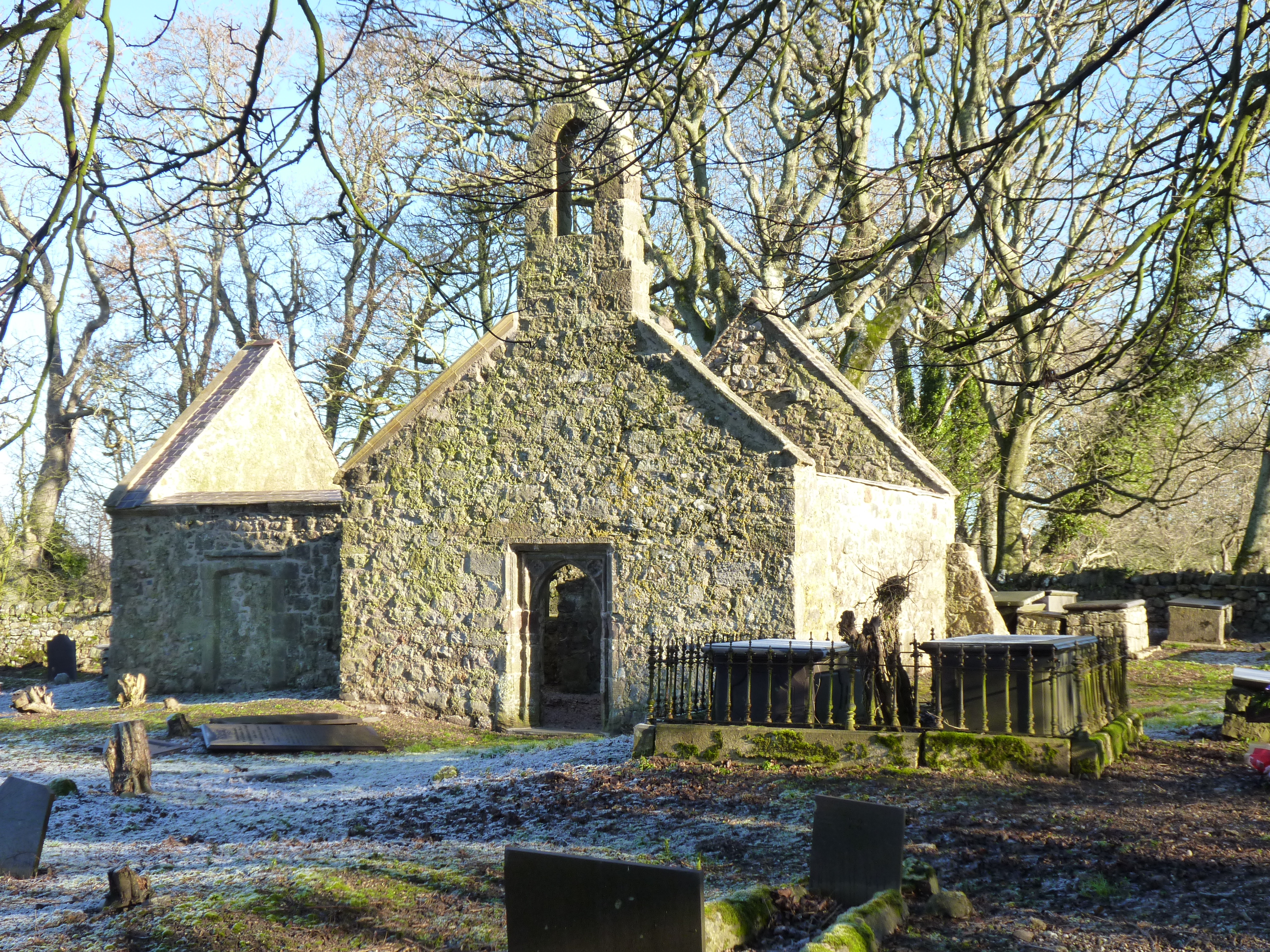 The remains of St Michael's Church, Llanfihangel Ysgeifiog, on a frosty morning. The structure dates from the 15th century and the north chapel (left hand side of the picture) was added in the 17th century. A replacement church was built elsewhere in the parish in 1847, and this church was closed, partly demolished and abandoned. Some restoration work has taken place in the 21st century and some occasional services have been held.